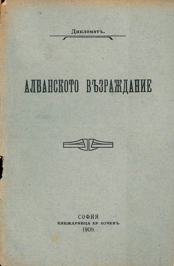 Albanian Renaissance